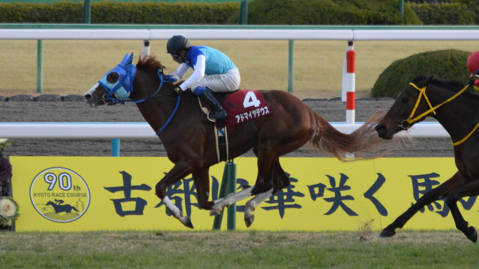 Japanese race horse Admire Deus at Kyoto racecourse. Kyoto (JPN) 18 Jan 2015Nikkei Shinshun Hai (Grade 2 Handicap) (4yo+) (Turf) 1m4f Firm RankHorse NameOddsAgeWgtJockeyTrainer1stAdmire Deus (JPN)11/1C455Yasunari IwataMitsuru Hashida2ndHula Bride (JPN)16/1M655Manabu SakaiKazuyoshi KiharaOthers are omitted. (18 horses entered in a race.)